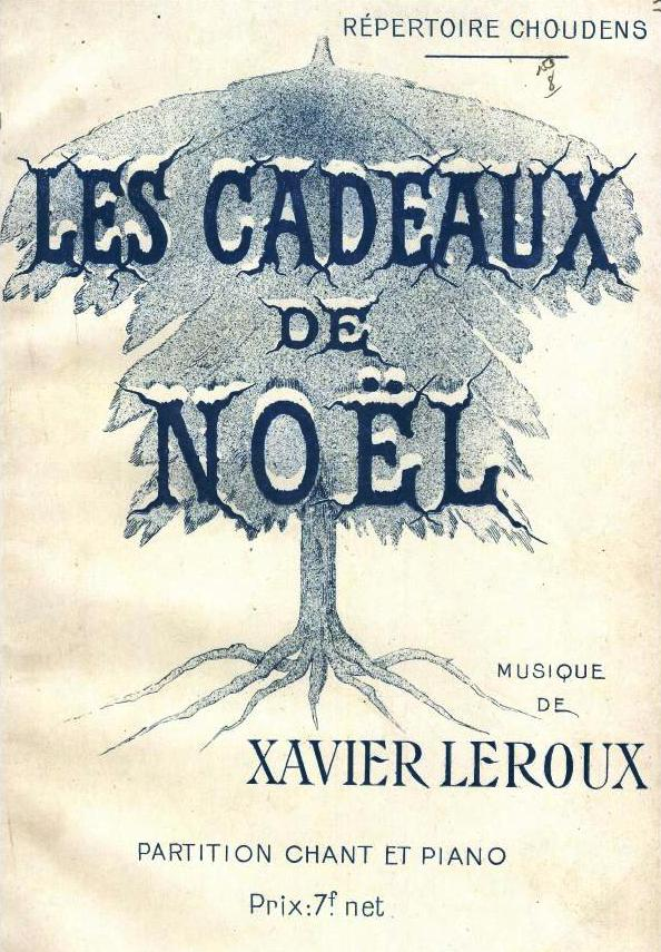 Cover of the piano/vocal score for Les cadeaux de Noël, an opera composed by Xavier Leroux (1863–1919 )